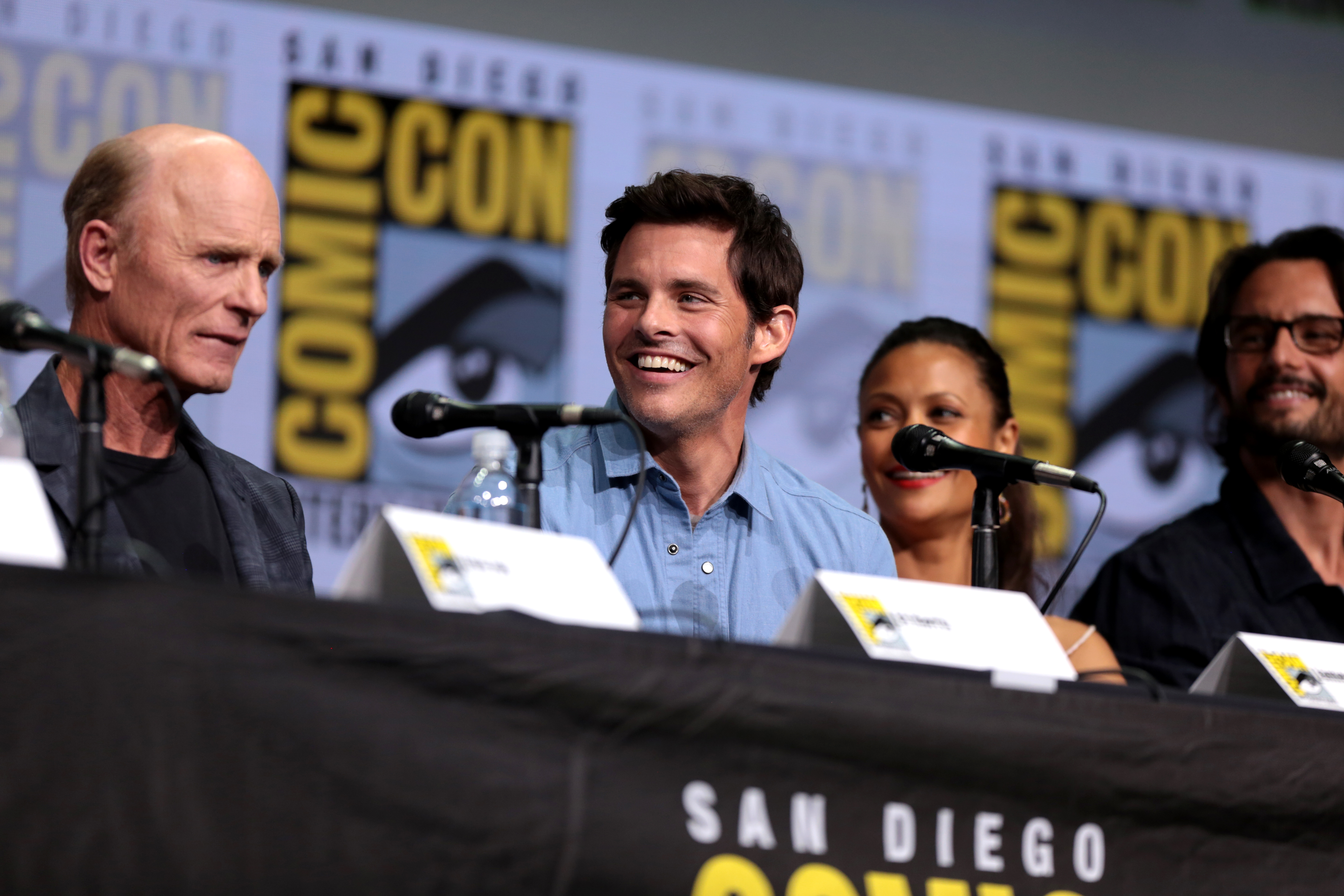 Ed Harris, James Marsden, Thandie Newton and Rodrigo Santoro speaking at the 2017 San Diego Comic Con International, for "Westworld", at the San Diego Convention Center in San Diego, California.